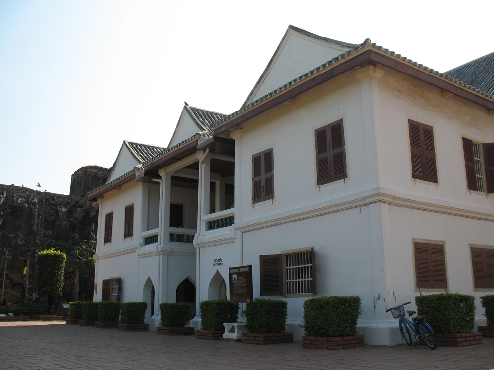 Phiman Mongkut Pavillion, King Narai's Palace, Lopburi Province.